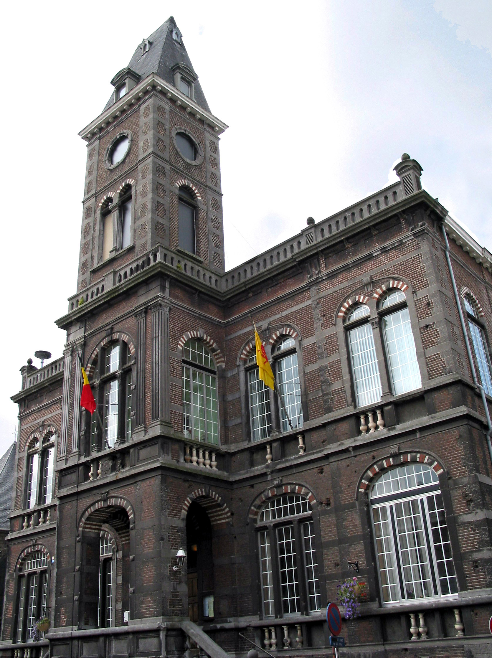 Fleurus (Belgium), the town hall.